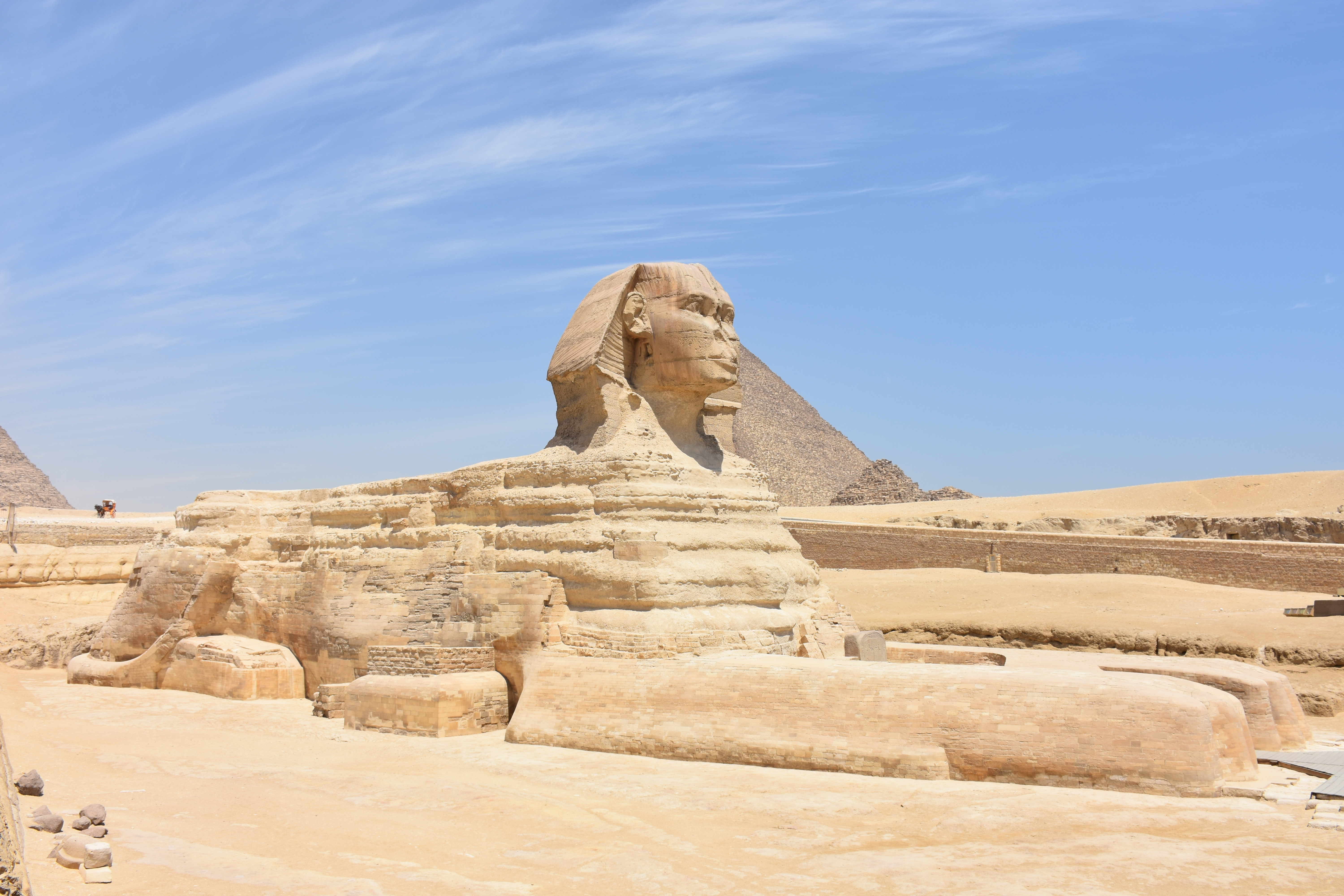 The Great Sphinx of Giza in May 2015